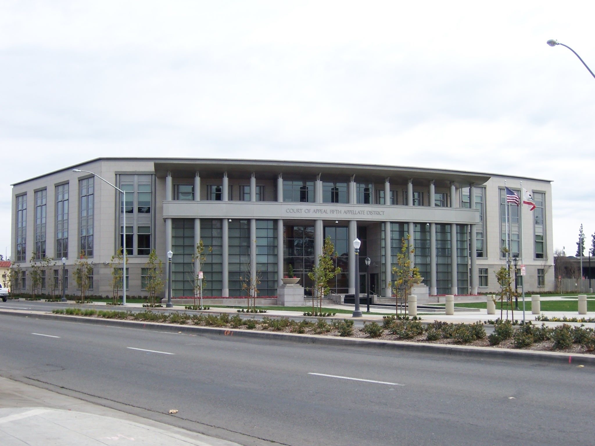 Photo of the California 5th District Court of Appeals building at 2424 Ventura Street Fresno, California. Named after former State Senator and Associate Justice George N. Zenovich.